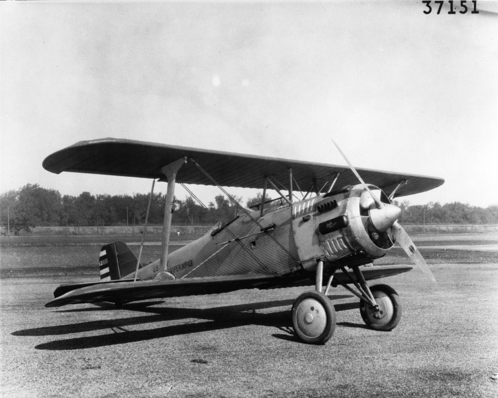 PictionID:41898525 - Title:Ray Wagner Collection Image - Catalog:16_000808 Thomas-Morse XP-13 29-453 - Filename:16_000808 Thomas-Morse XP-13 29-453.tif - - Ray Wagner was Archivist at the San Diego Air and Space Museum for several years and is an author of several books on aviation --- ---Please Tag these images so that the information can be permanently stored with the digital file.---Repository: San Diego Air and Space Museum